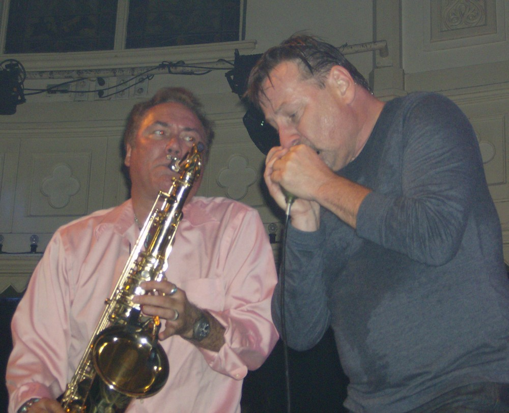 Southside Johnny and Joey Stann performing with the Asbury Jukes, live in Amsterdam, October 5, 2007